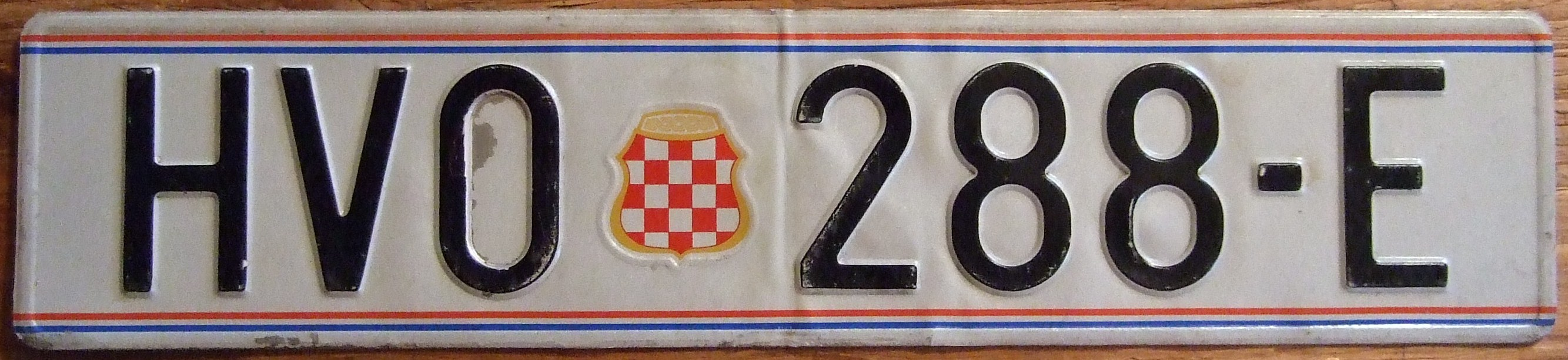 License plate of a military vehicle from the Croatian Republic of Herzeg-Bosnia, HV = Hrvatska vojska (Croatian Army)